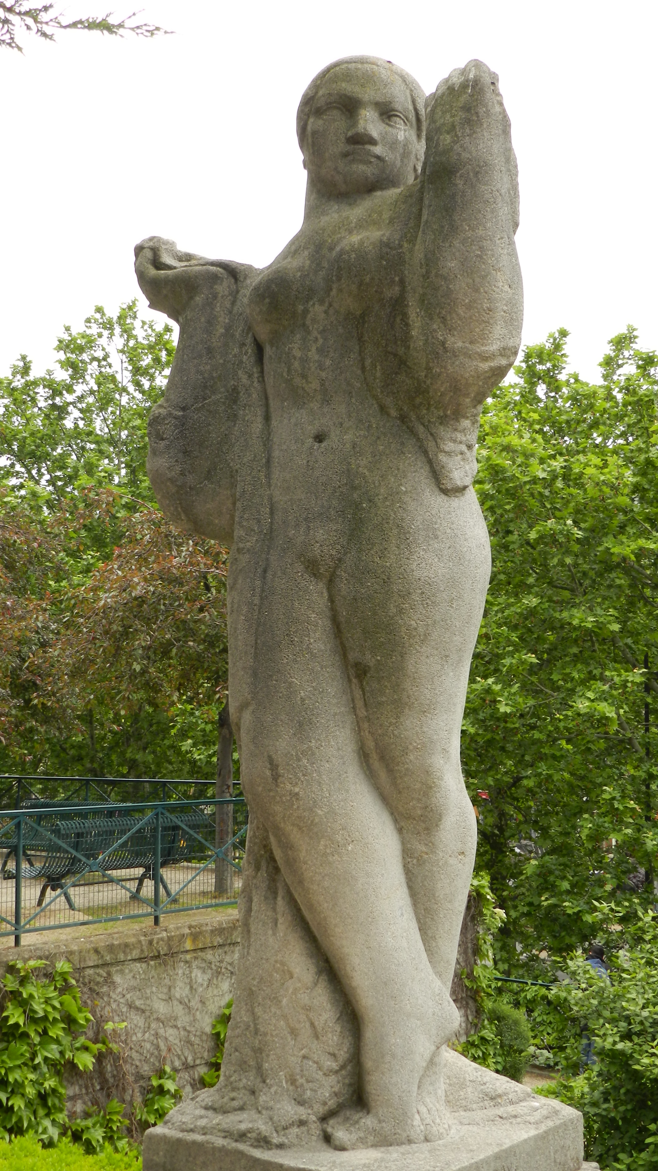 La Danse by Charles Malfray, Jardin de Reuilly, Paris.